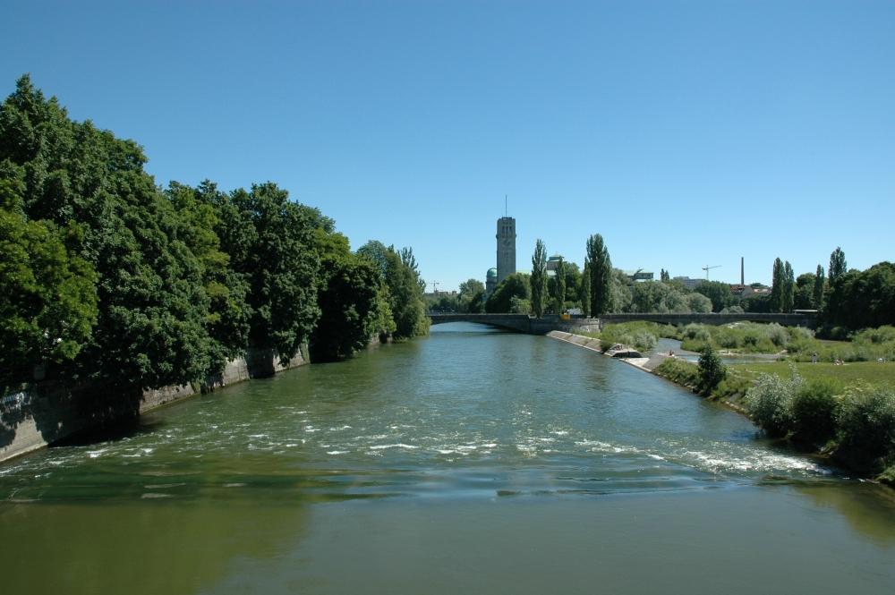 River Isar in Munich nearby the Deutsche Museum